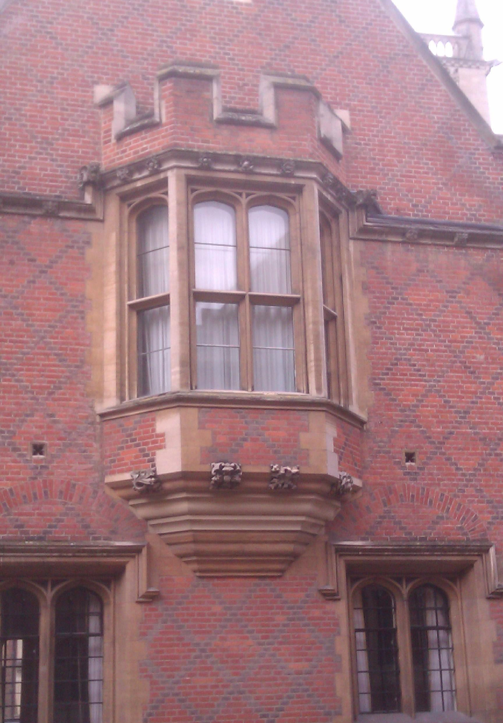 Flemish Diagonal Bond, St John's College, Trinity Street, Cambridge